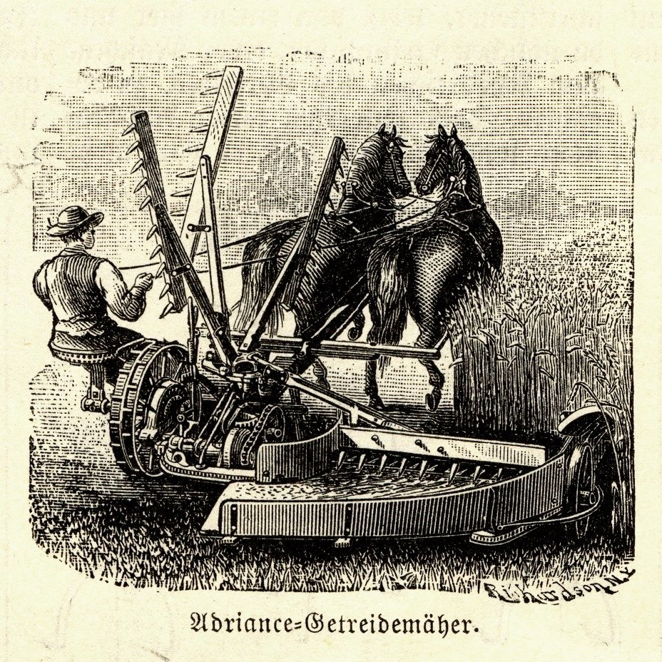 Illustration of a horse-drawn self-rake reaper (manufacturer: Adriance Co.; Richardson, N.Y.)